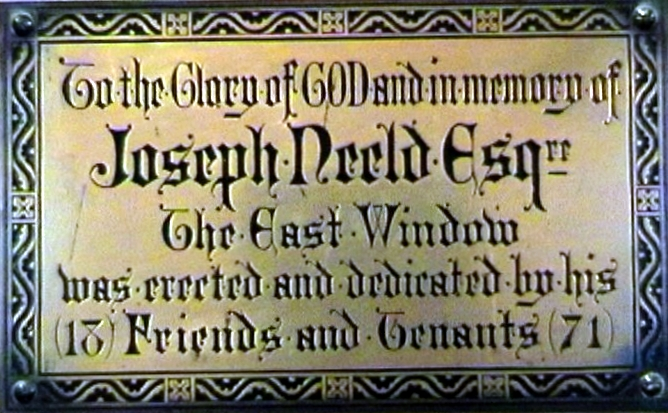 Memorial plaque to Joseph Neeld in the parish church of St Mary the Virgin, Grittleton, Wiltshire